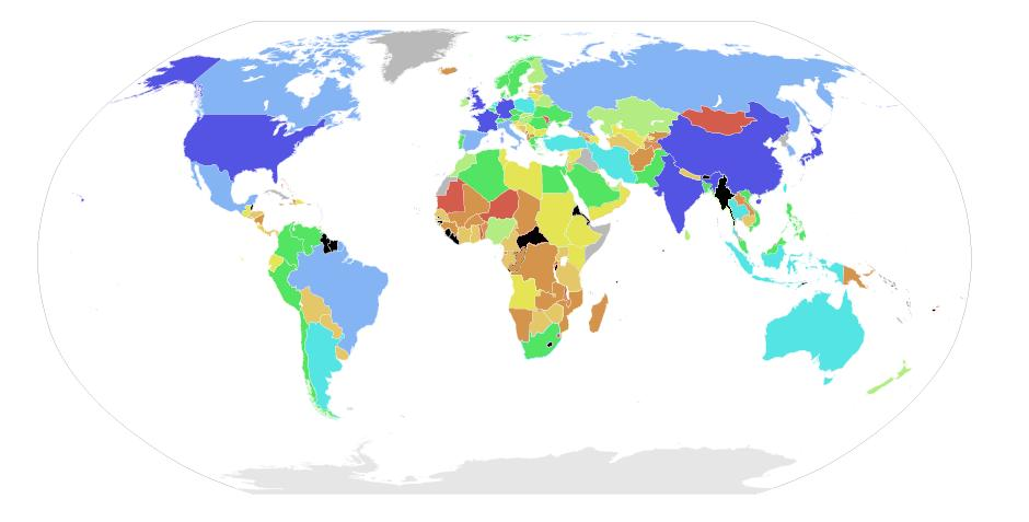 World map PBI PPA 2008